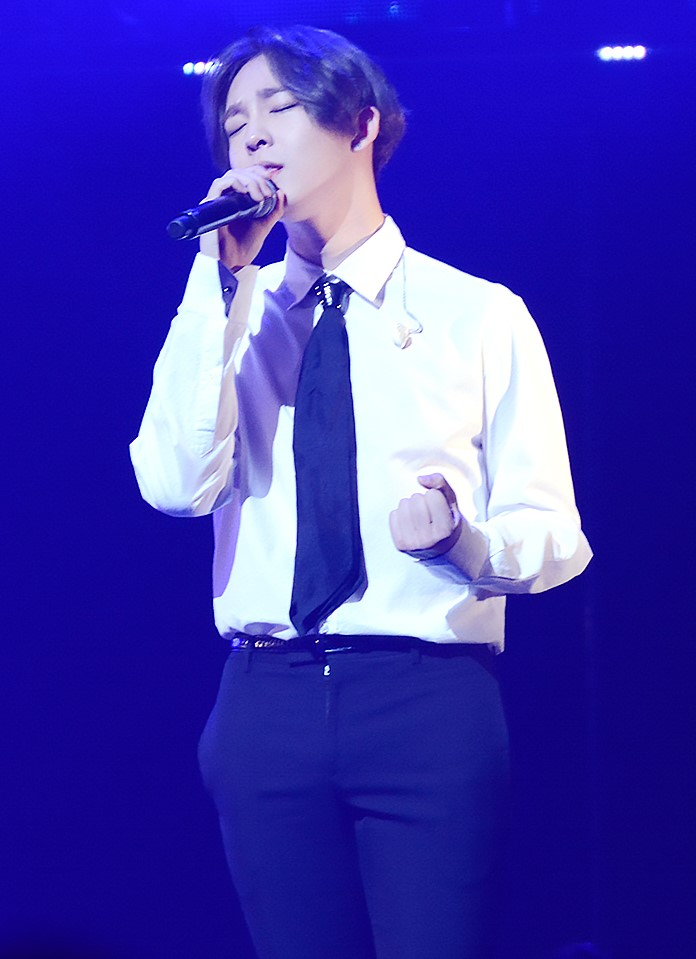 Taehyun performing at WINNER Japan Tour in Aichi, on October 9, 2015.